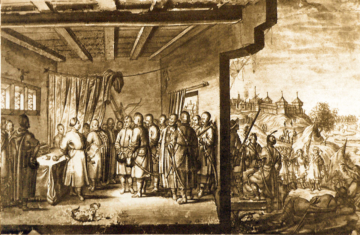 Reception of Bohdan Khmelnytsky's envoys by Janusz Radziwiłł in 1651 by Abraham Evertsz. van Westerveld